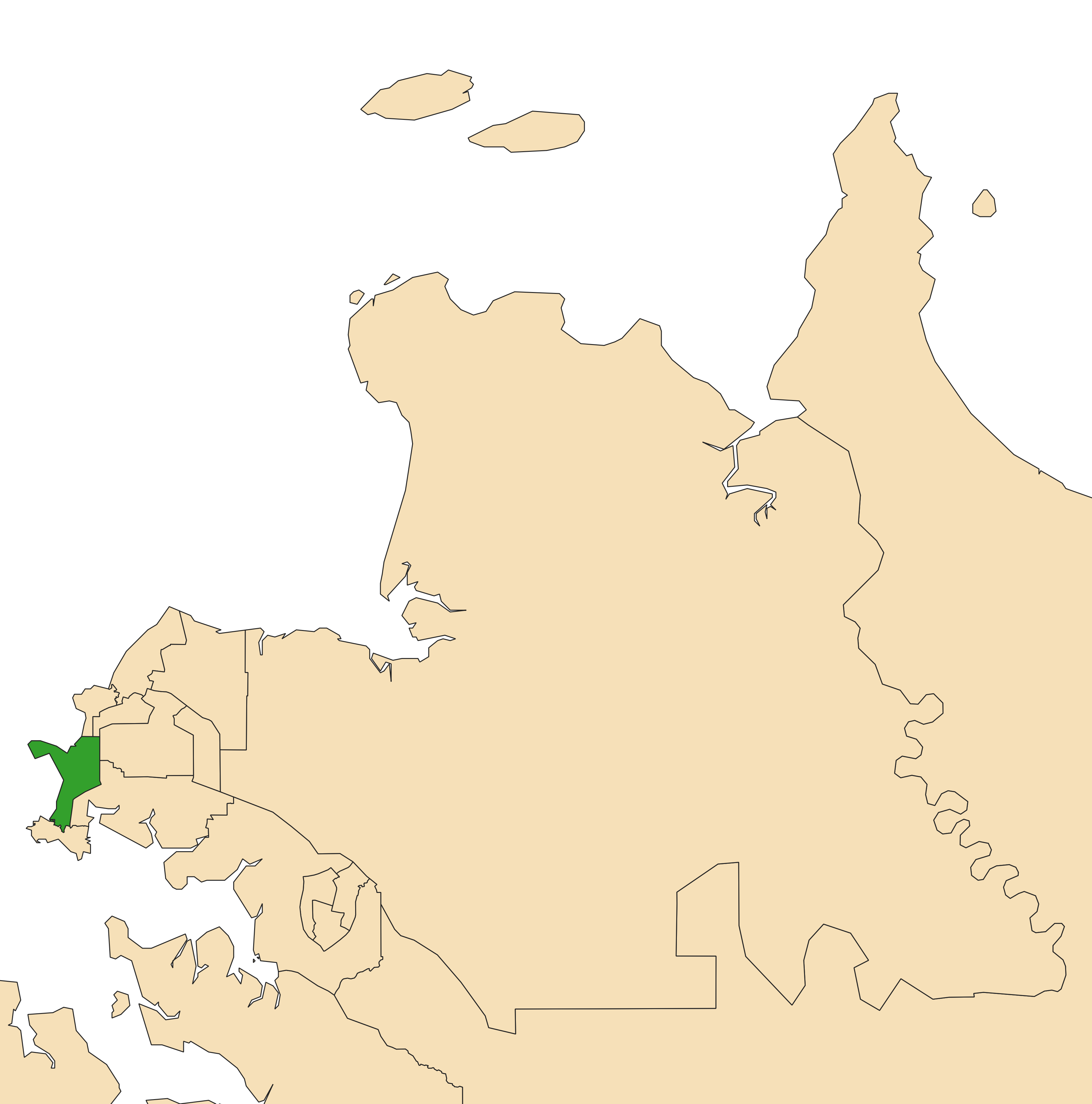 Location of the electoral division of Fannie Bay (dark green) in the Darwin/Palmerston area of the Northern Territory at the 2020 Northern Territory election